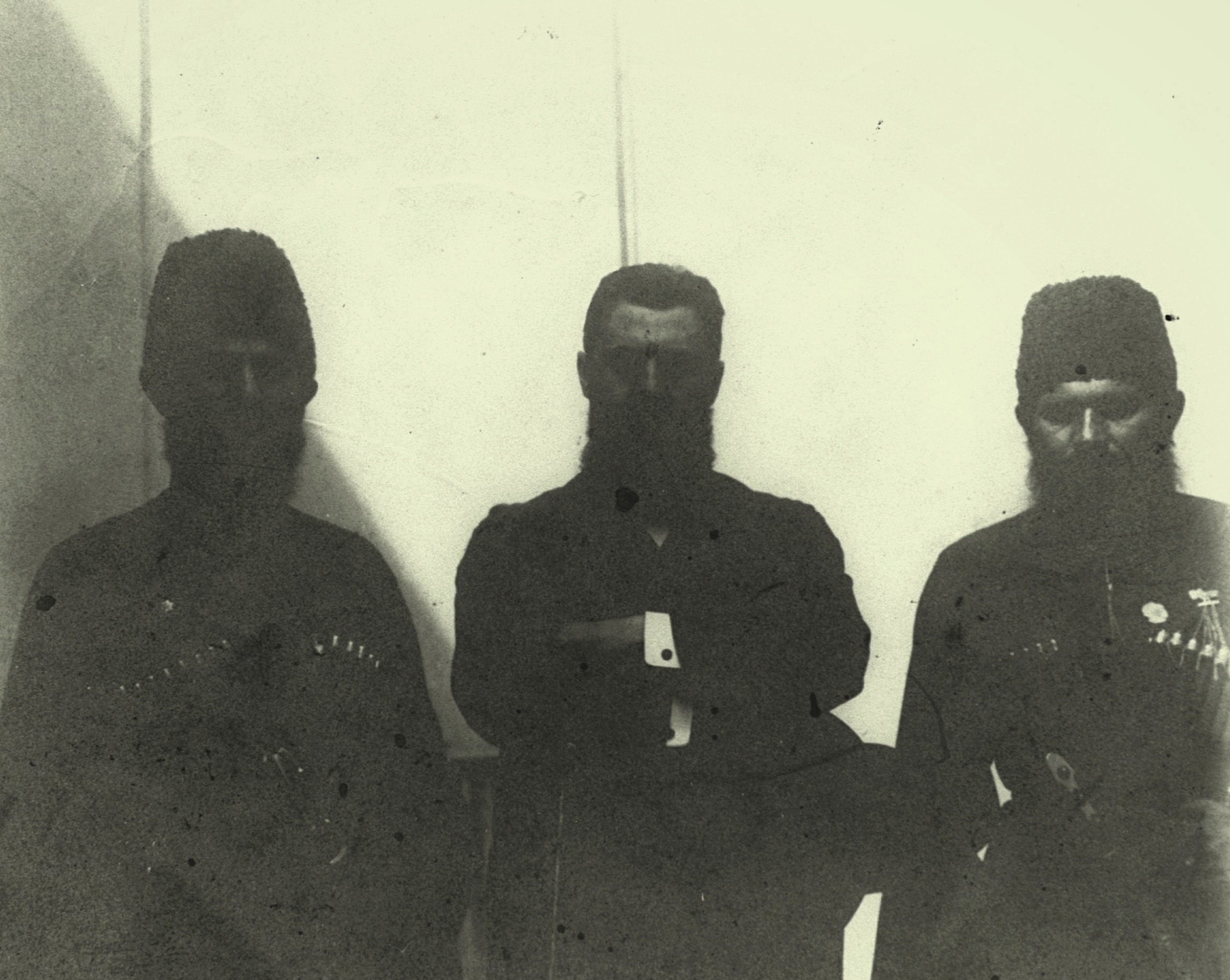 THEODOR HERZL (CENTER) WITH CAUCASIAN DELEGATES TO THE SIXTH ZIONIST CONGRESS IN 1903. תאודור הרצל עם שני צירים קאוקזיים לקונגרס הציוני השישי - שנת 1903.